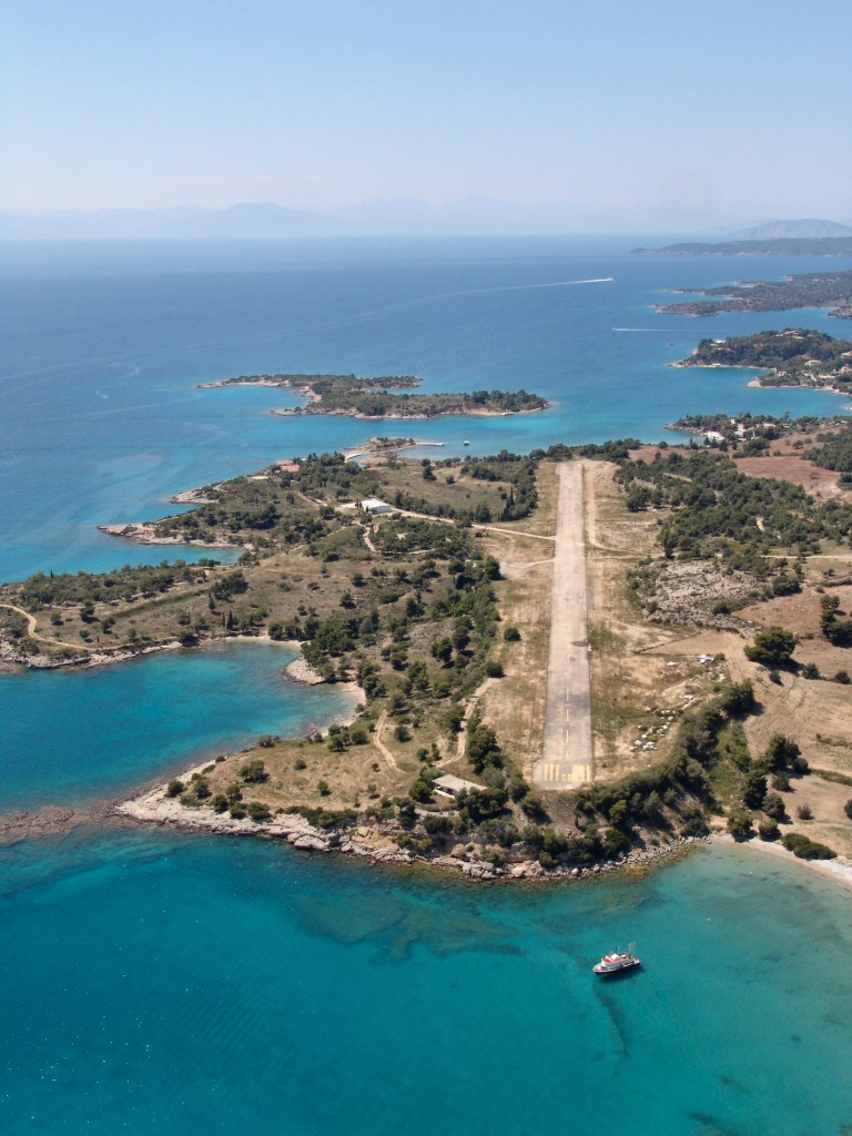 Porto Heli Airfield